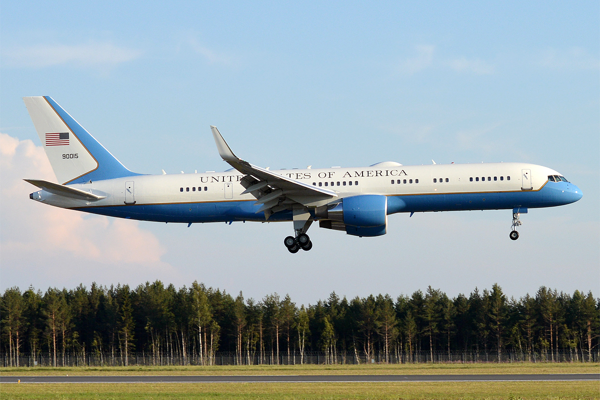 U.S. Air Force, 99-0015, Boeing C-32A